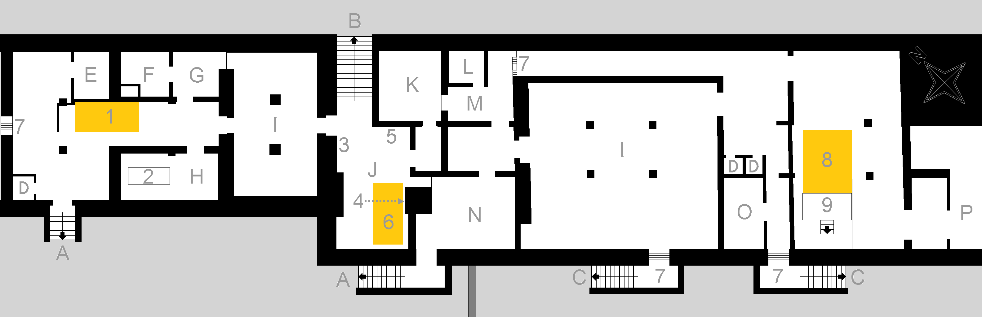 Mauthausen concentration camp (main camp): floor plan of the "execution cellar": A– stairs to courtyard of the Arrest Block; B– stairs to roll-call square; C– stairs to courtyard of the Infirmary Block; D– toilet; E– lounge and washroom; F– duty room of the SS man in charge of the camp crematorium; G– engine room (for the air conditioning system of the neighbouring mortuary); H– dissecting room; I– mortuary; J– execution room; K– gas chamber; L– gas cell; M– equipment room; N– undressing room; O– washroom; P– cellar of the Infirmary Block; 1– cremation oven no. 1; 2 – dissecting table; 3– gallows; 4– neck shooting corner; 5– location of cremation oven no. 2; 6– blocked accesses; 7– cremation oven no. 3; 8– lower ground level for oven access. The rooms called "execution cellar" are located beneath the Arrest Block and the Infirmary Block.